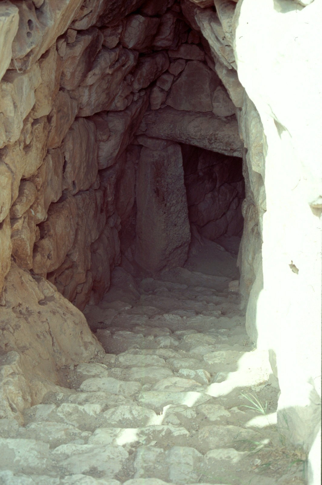 Detail of the high city of ancient Mykenai. Own work, 2003, MC Rokkor-PG 50/1,4 on Provia 100.